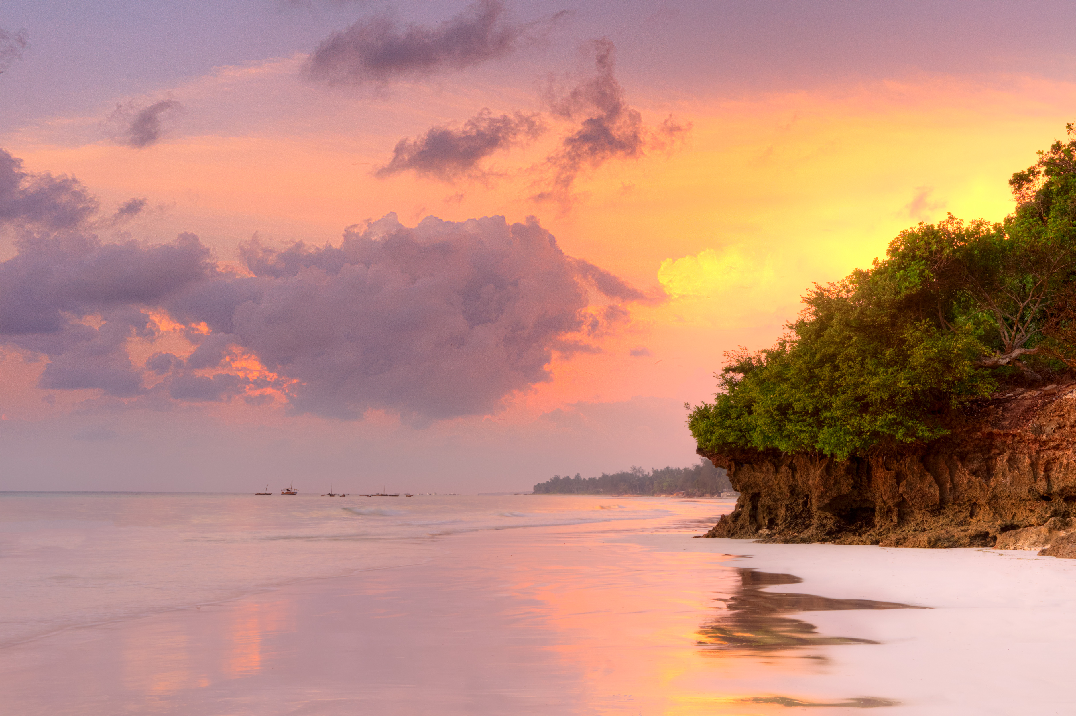 Sunrise at Diani Beach